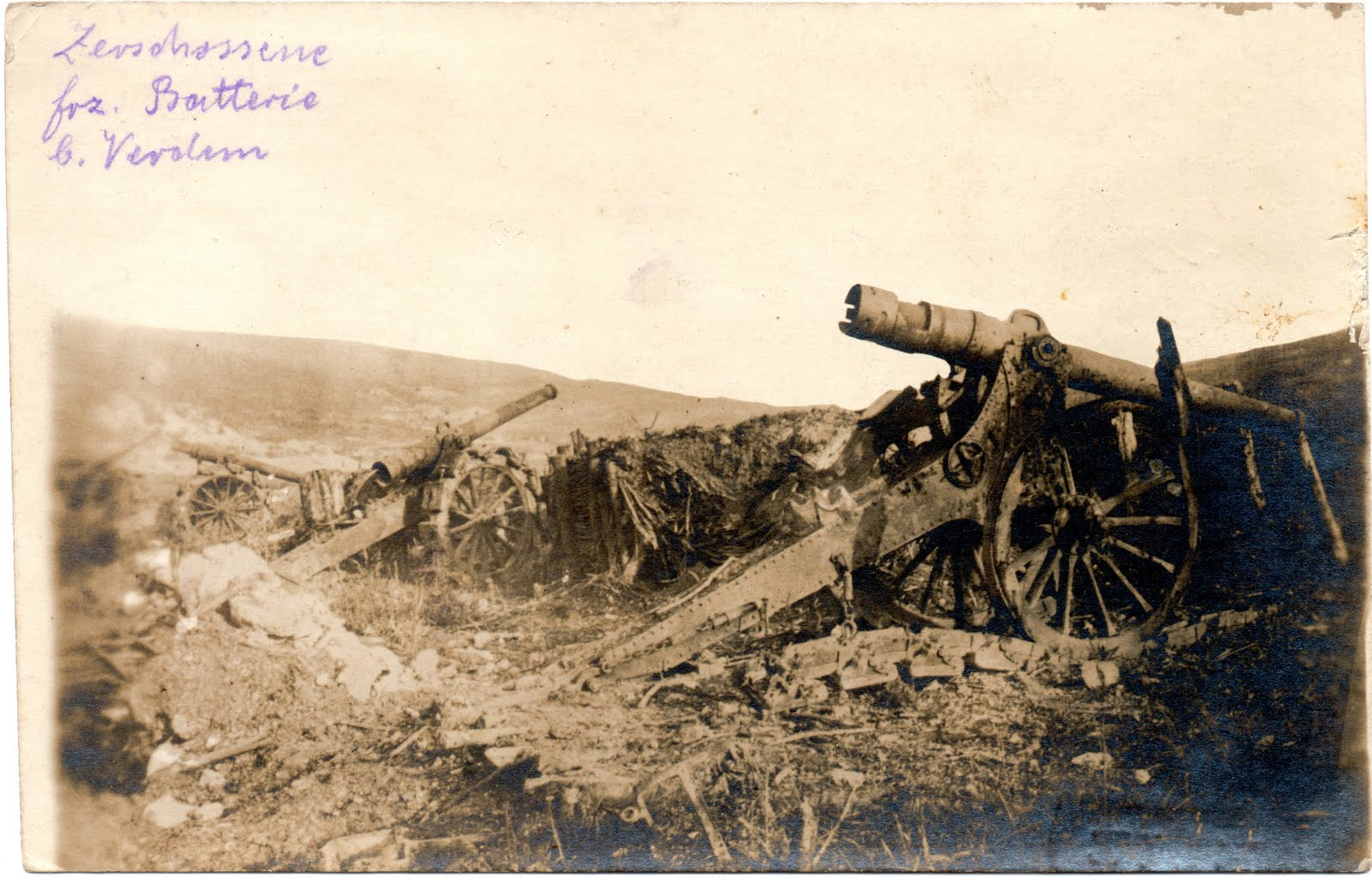 French long gun battery (155 L or 120 L) overrun by the German forces at Verdun; post stamp suggest by the 34th Infantry division.